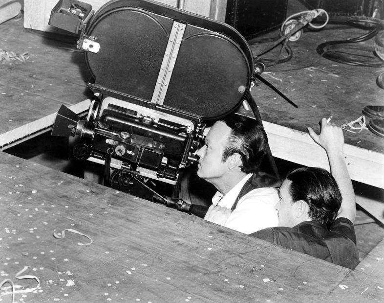 Promotional still for the 1941 film, Citizen Kane